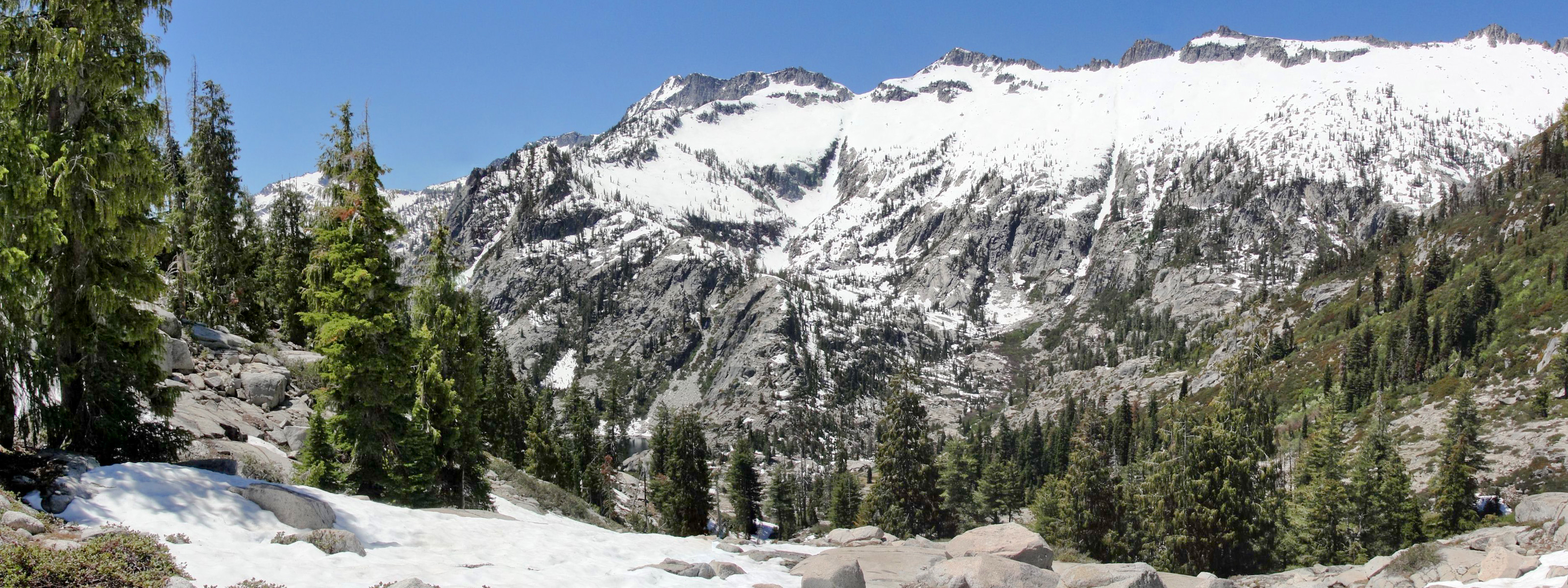 Mixed conifer forest dominated by Picea breweriana — in the Trinity Alps—Klamath Mountains, northern California. On the Lower Canyon Lake Trail, in the Trinity Alps Wilderness area.